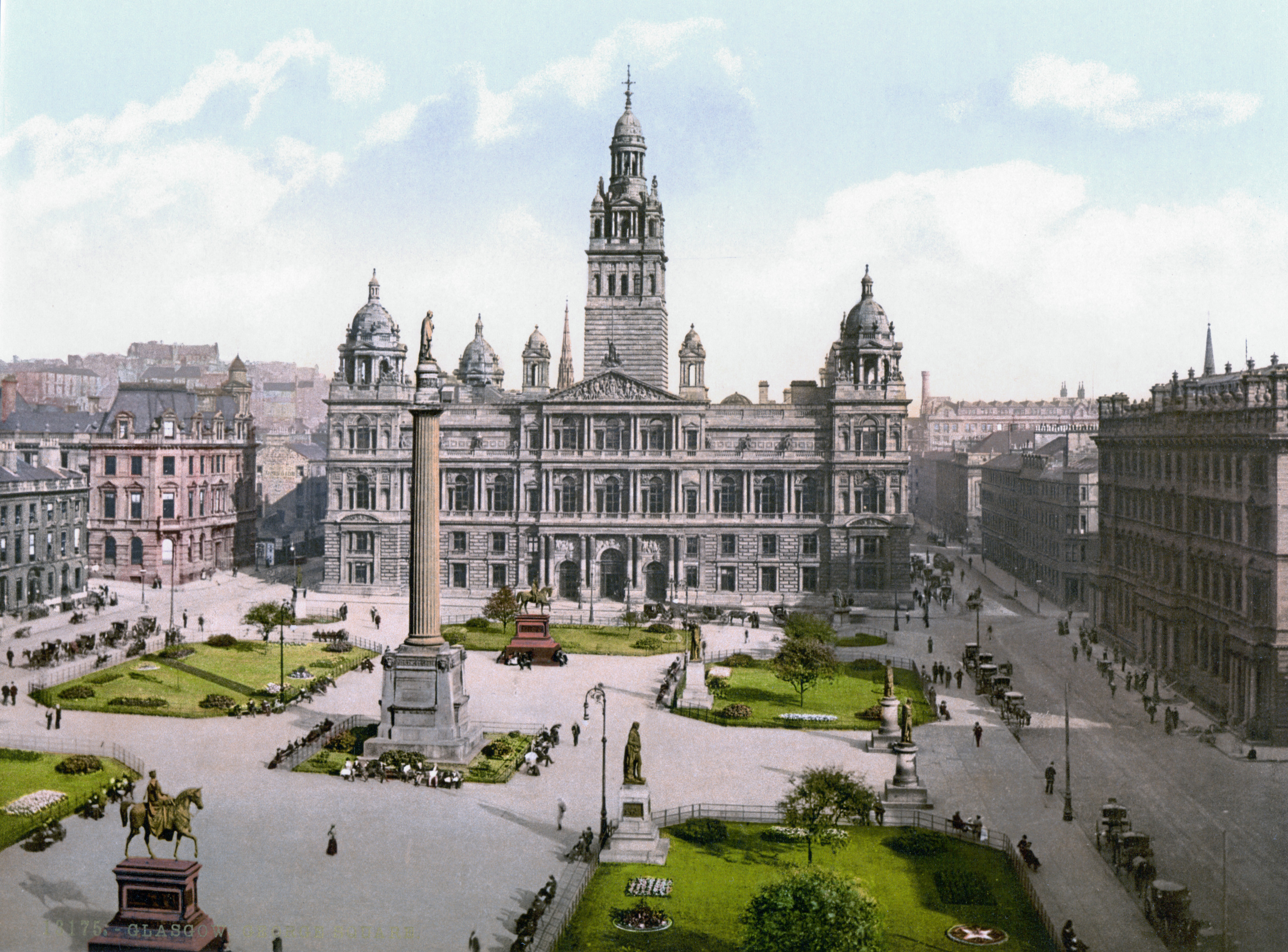 George Square, Glasgow, Scotland Print no. "13175"